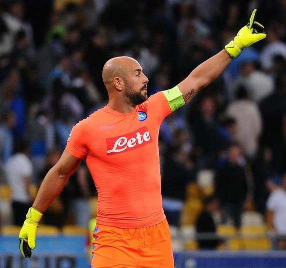 Pepe Reina playing for Napoli in Champions League match against Dynamo Kiev